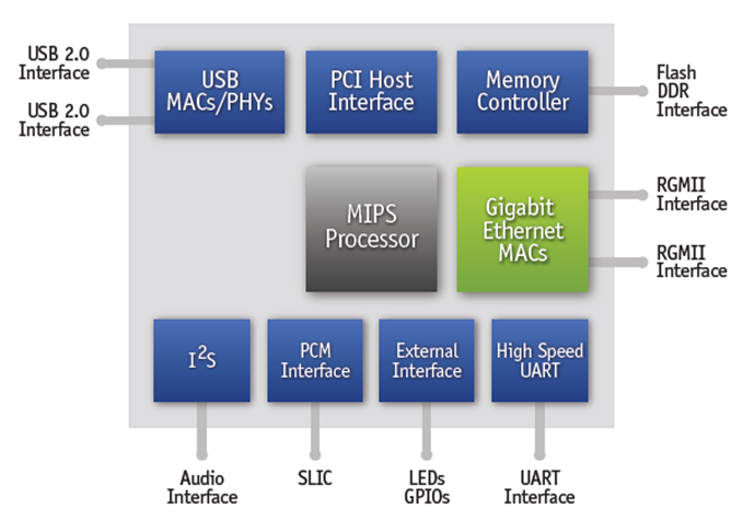 Atheros AR7161 architecture